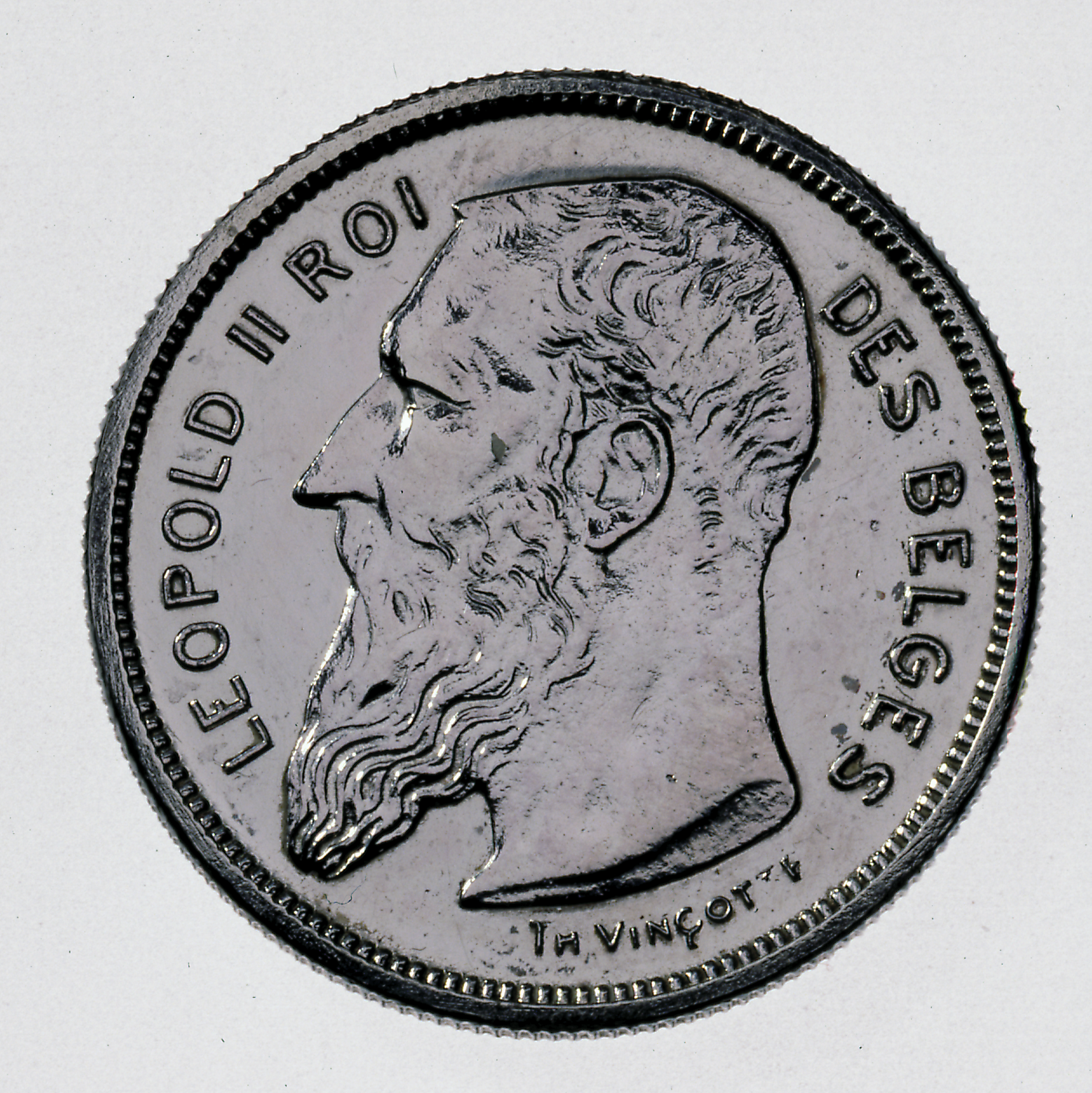 Belgian coin of 2 francs (Leopold II) in French - obverse